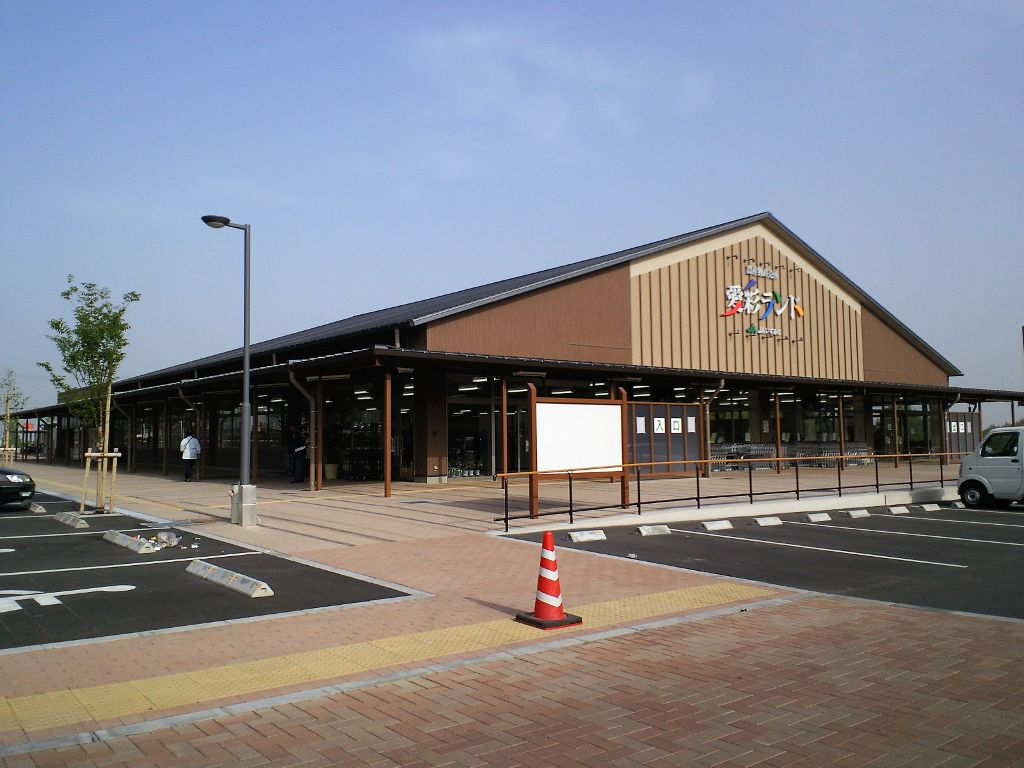 Aisai-land, Kishiwada, Osaka, Japan